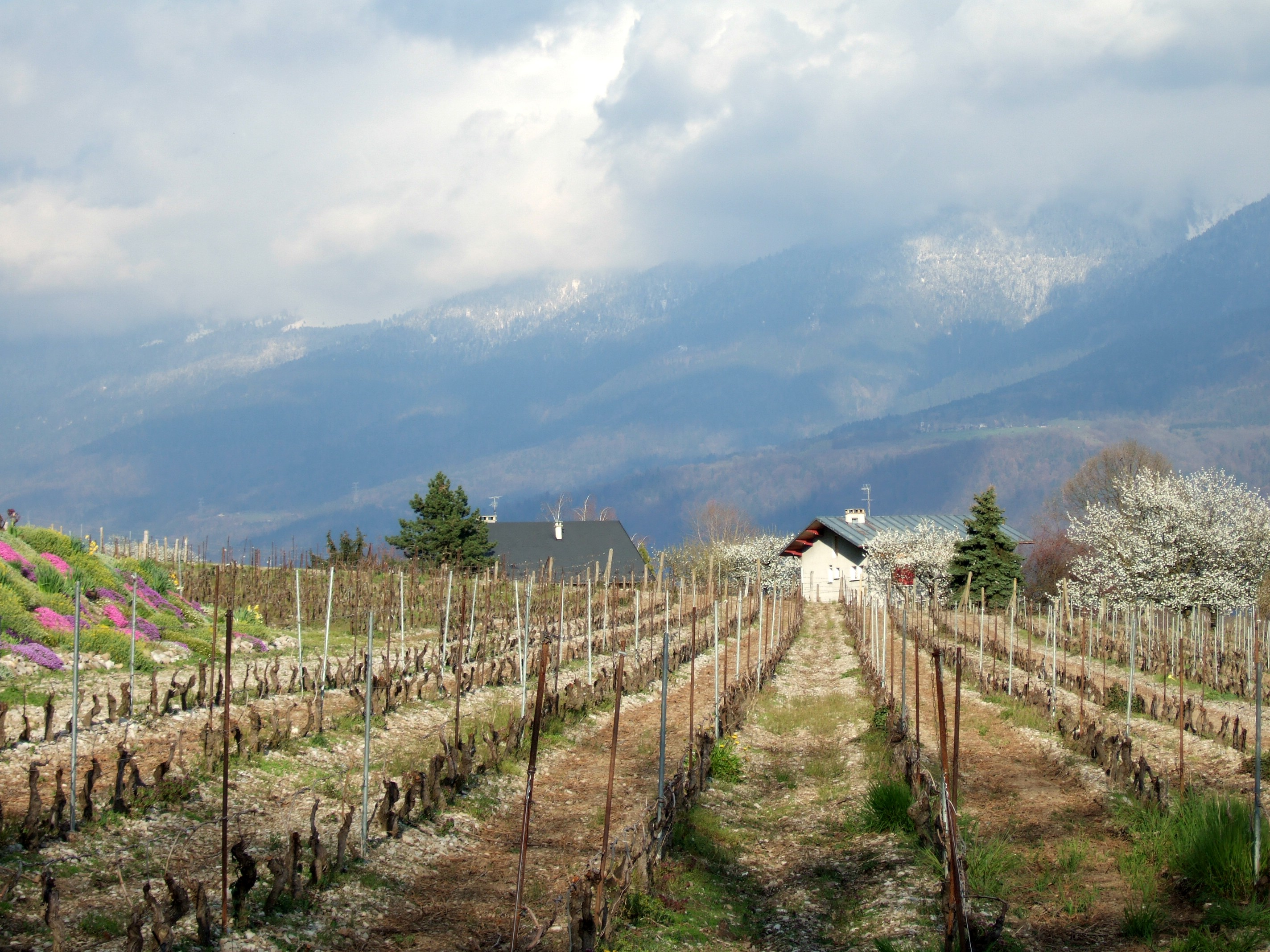 Vineyard in the French wine region of Savoie/Savoy